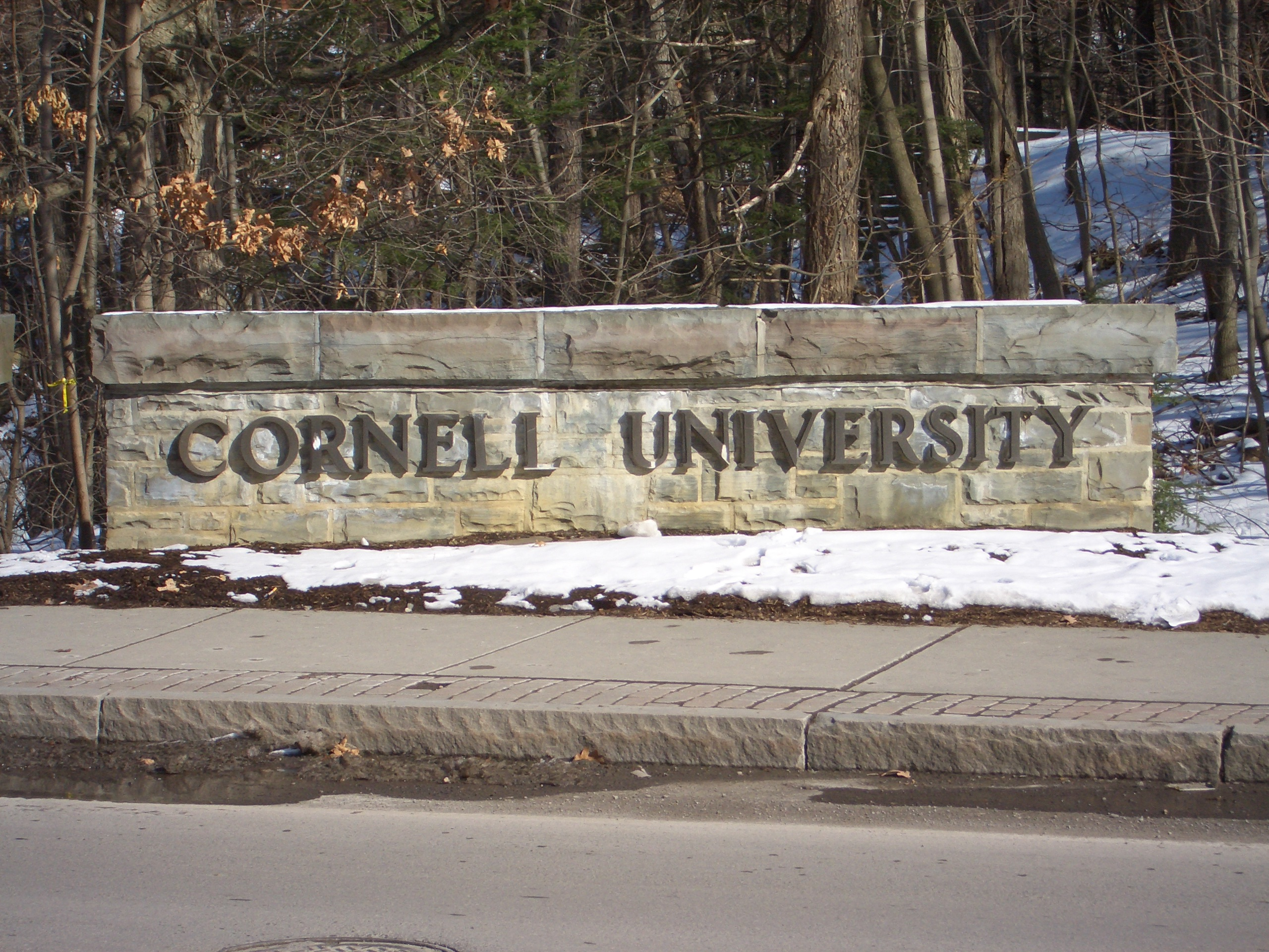 The Cornell University Sign at the West Campus Entrance See also a summertime version of the same scene.